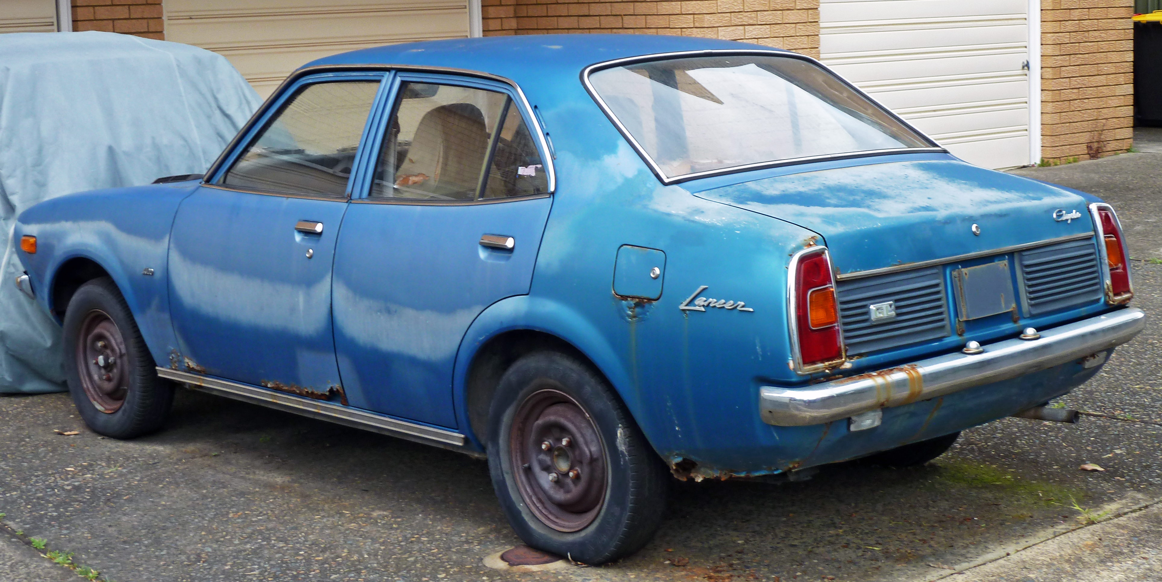 1976–1977 Chrysler Lancer (LA) GL sedan. The Lancer was introduced by Chrysler Australia in 1974 as the Chrysler Valiant Lancer; "Valiant" was dropped from the name in 1976. The updated LB series arrived in 1977. Photographed in Sandringham, New South Wales, Australia.